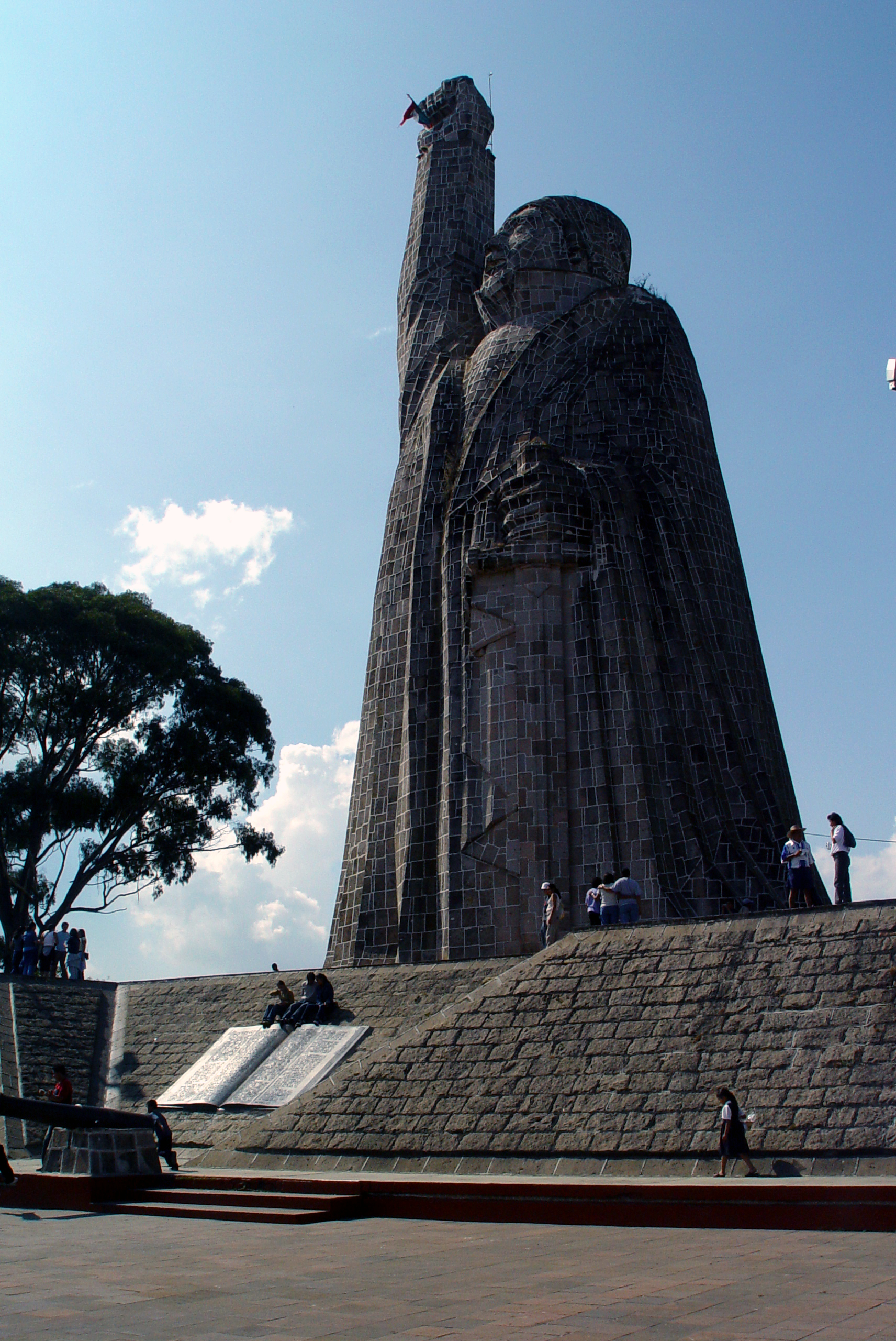 Morelos statue in Janitzio, Michoacan, Mexico